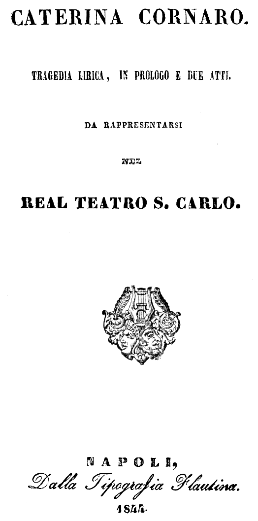 Gaetano Donizetti - Caterina Cornaro - titlepage of the libretto - Naples 1844